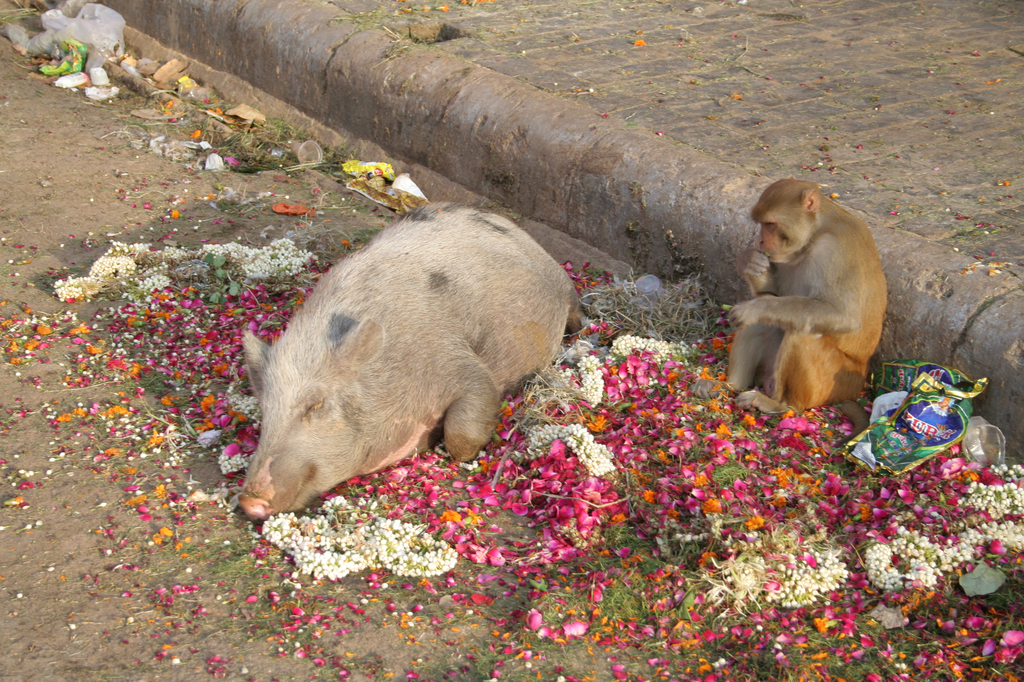 Pig and monkey (Macaca mulatta), Jaipur, Rajasthan, India.